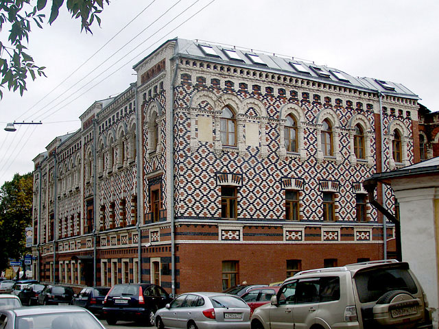 Constantinople Metochion in Moscow of the Patriarch of Constantinopol. On Krapivensky Lane, Moscow. Built in the Byzantine Revival style.